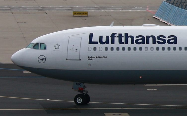 Section of a picture showing an Airbus A340-600 Mainz of Lufthansa